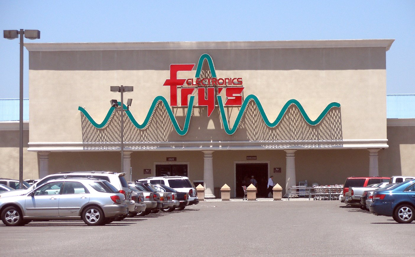 The flagship Fry's Electronics store in Sunnyvale.